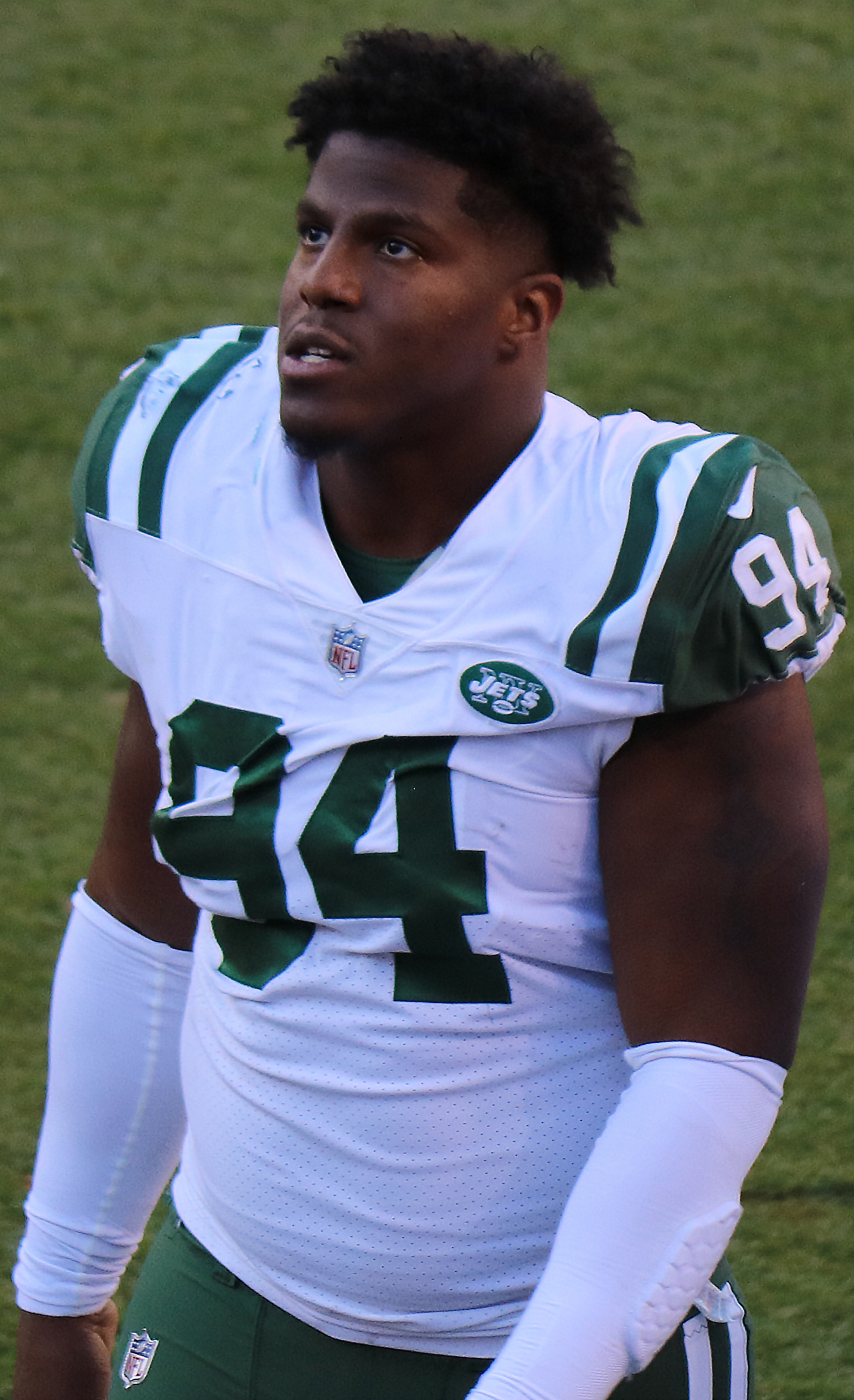 Kony Ealy, a National Football League player.